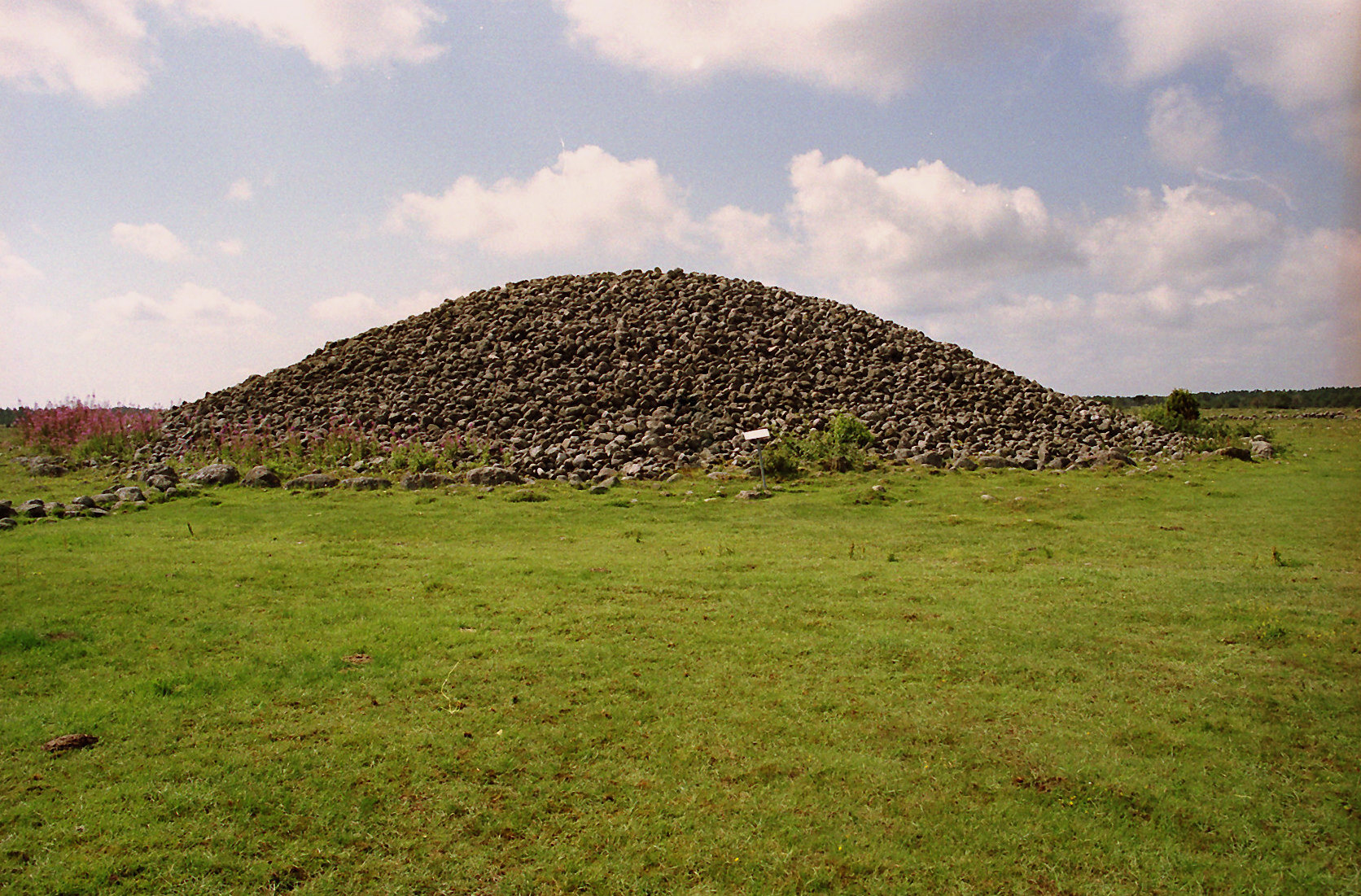 Cairn of Uggarde rojr, Rone parish, Gotland